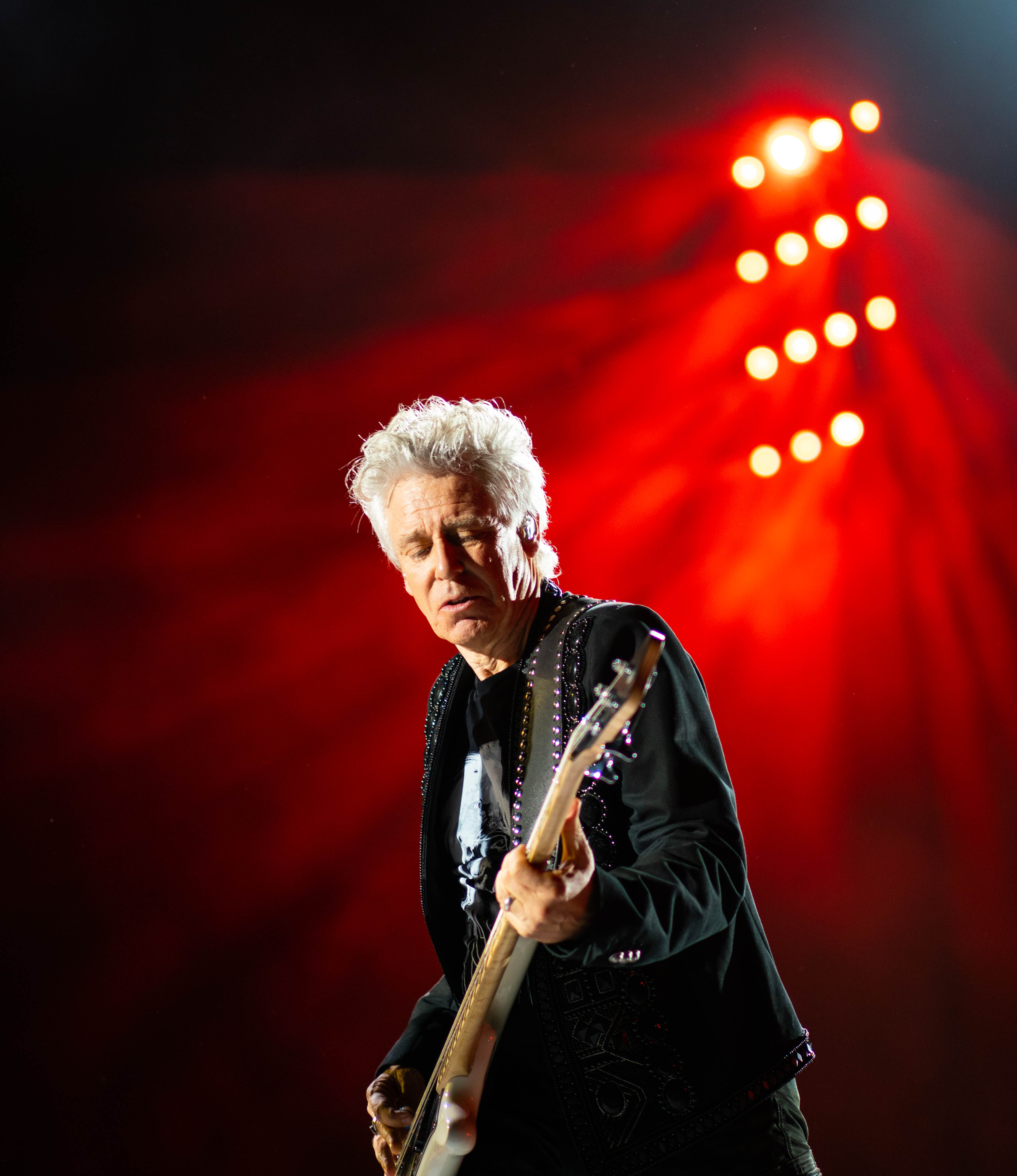 Irish rock band U2 performing at Mount Smart Stadium in Auckland, New Zealand on November 8, 2019, during the band's The Joshua Tree Tour 2019